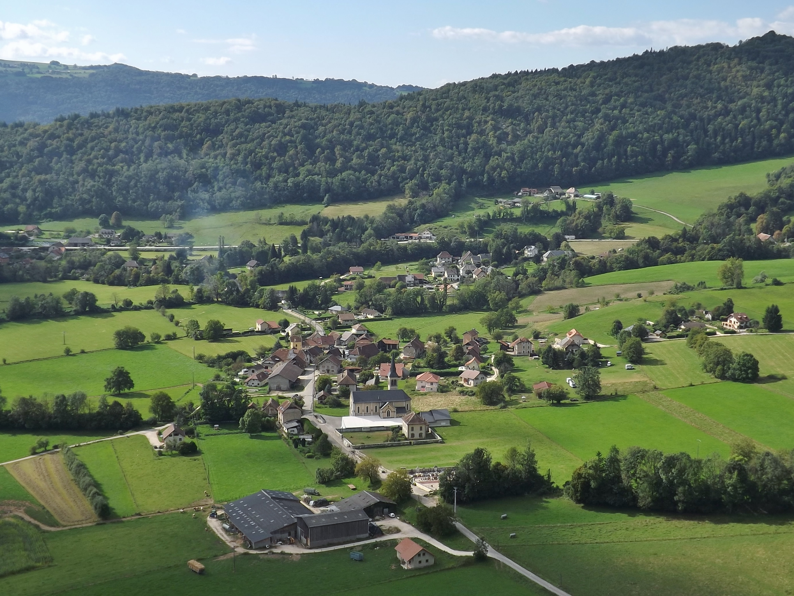 Panoramic sight on the the French village and commune of Saint-Christophe, in Savoie.